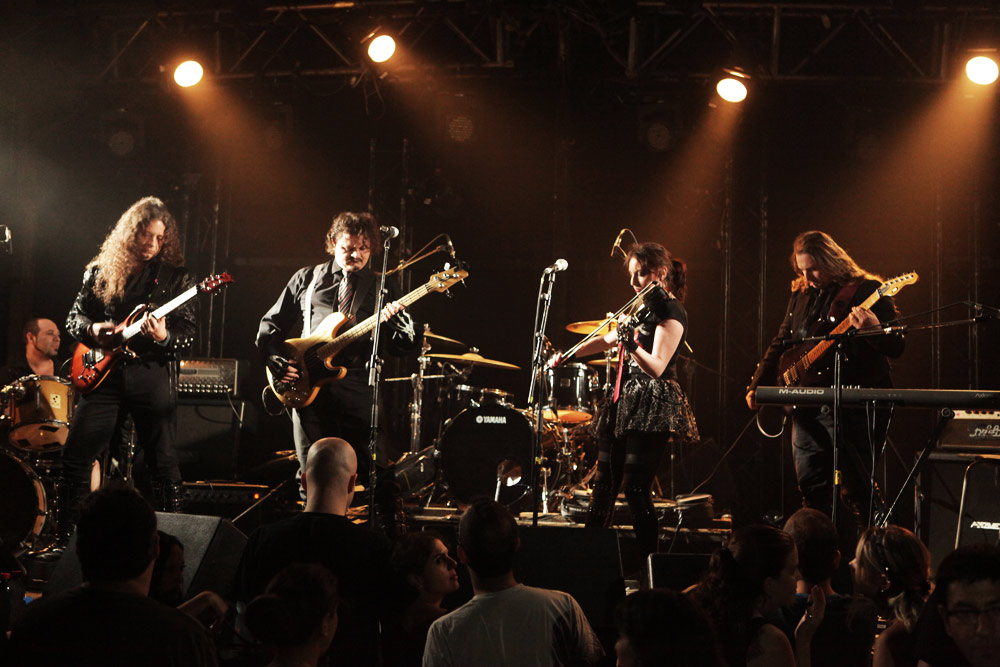 Fatum Aeternum performs at Barby club, Tel-Aviv, on September 22nd, 2012. From left to right: Vadin Weinstein, Dan Yoffe, Steve Gershon, Evelyn Shor, Igor Sherman.